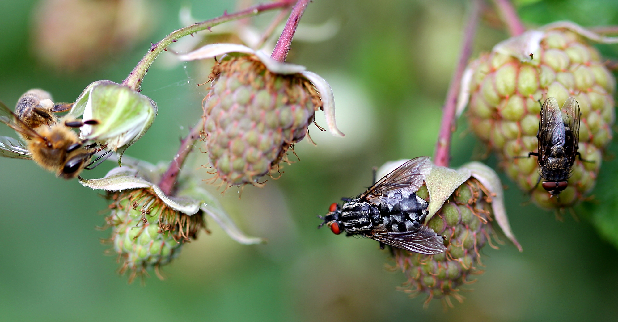 growing fruits visited by various insects